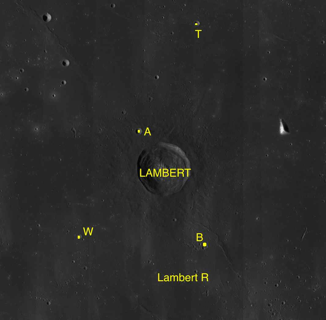 Part of the chart LAC-40 used for the presentation